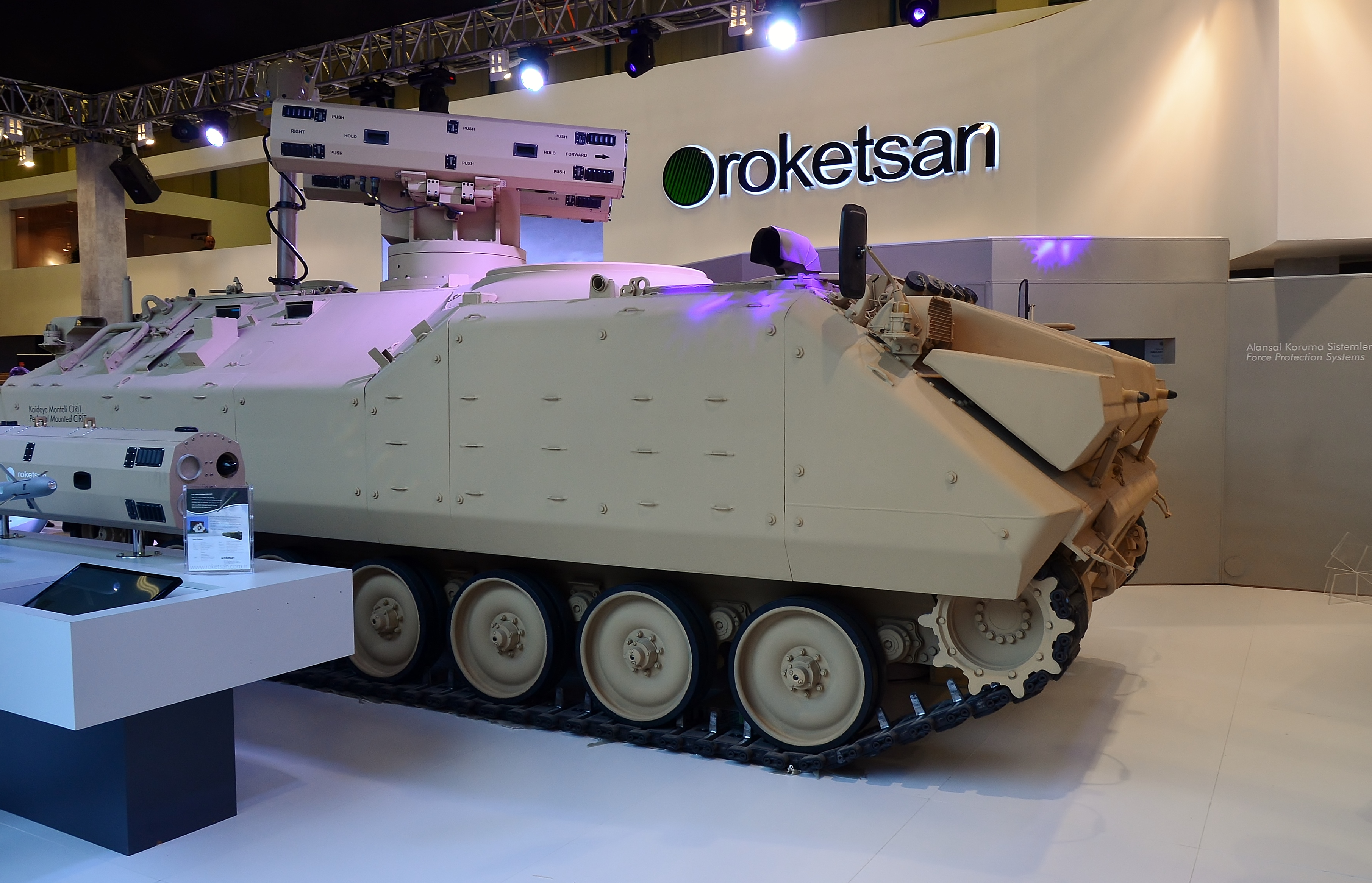 Missiles of Roketsan at IDEF 2015